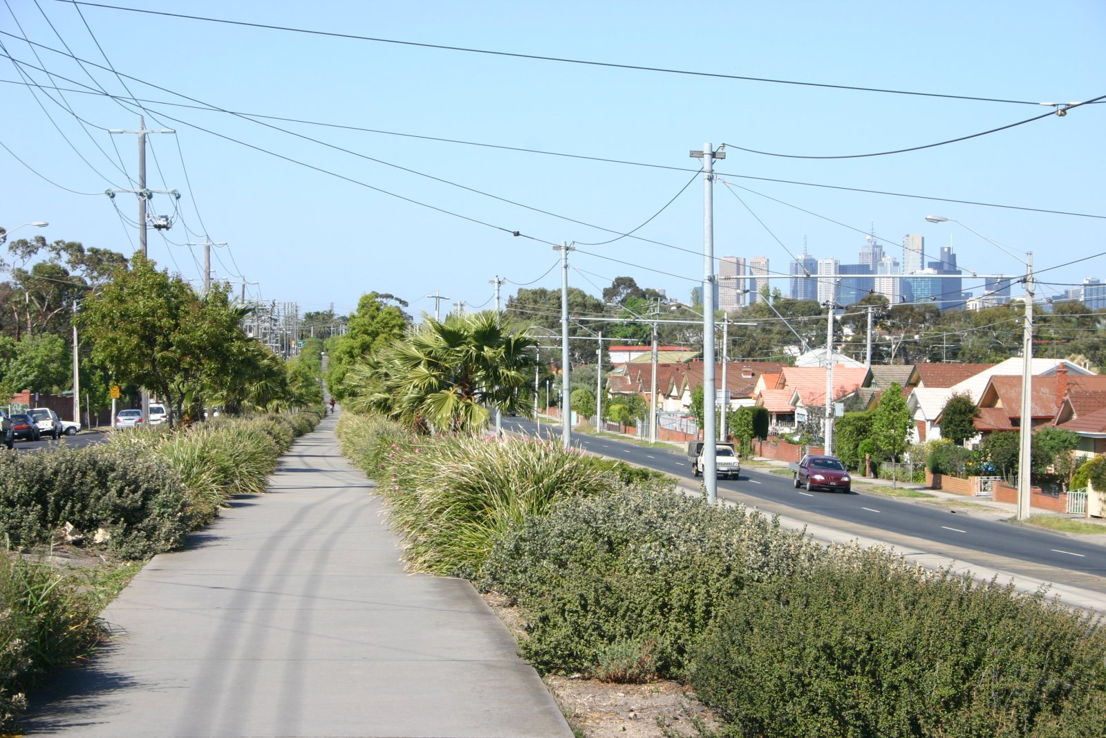 W:St Georges Rd Trail looking towards the city of Melbourne